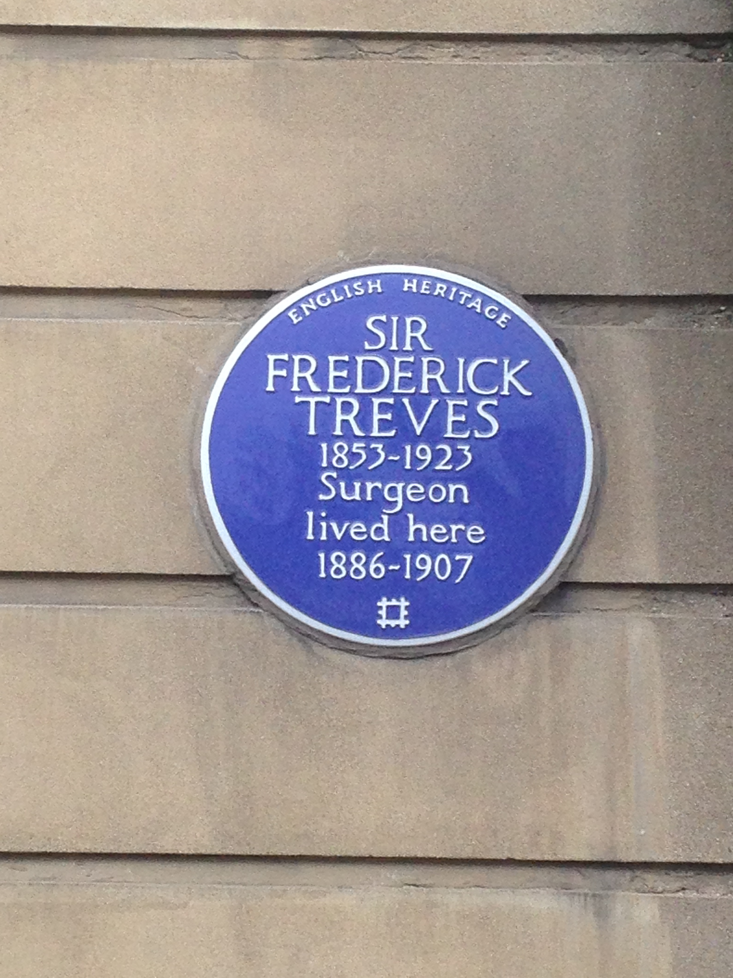 The English Heritage blue plaque for Sir Frederick Treves at 6 Wimpole Street, Marylebone, London W1G 8AL, City of Westminster